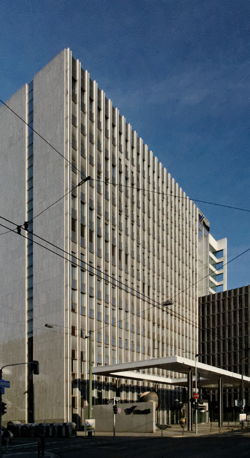 Building Friedrichstraße 62 to 80 in Düsseldorf-Friedrichstadt, Germany